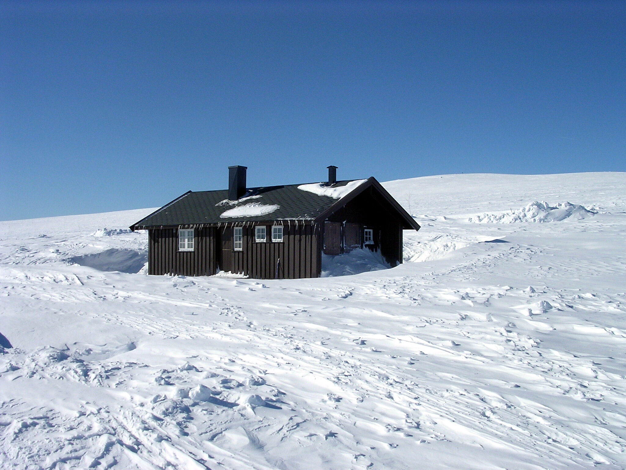 Lufsjå, the cabin near the lake Lufsjå, Hardangervidda in Norway.